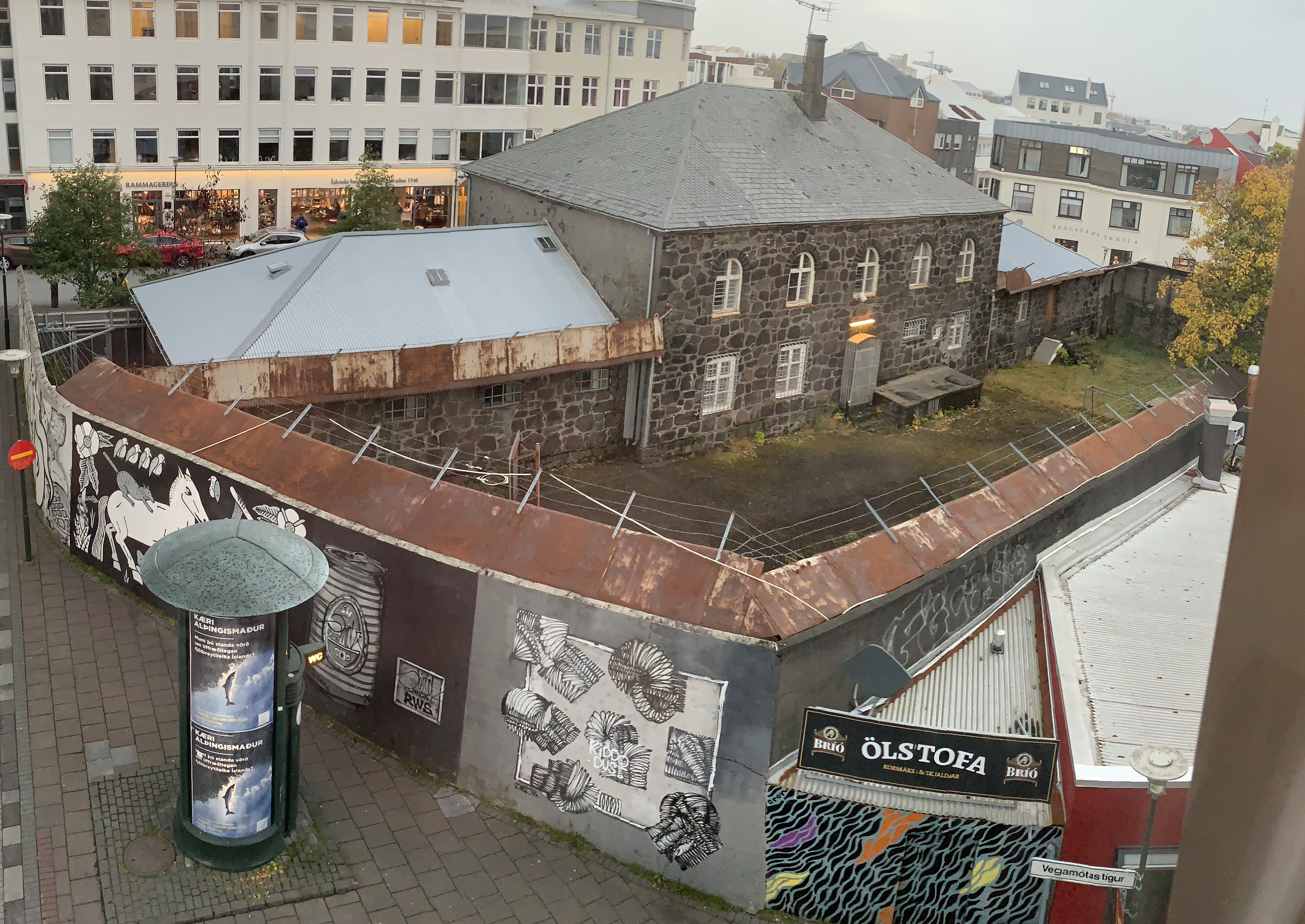 Photo of Hegningarhúsið taken from the right rear of the property, looking down over the walls into the building’s walled courtyard. This photo taken by the submitter, from the vantage point of a 4th floor window in an adjacent property. Photo taken 2019-09-21 around 1800 local time. Visible in the photo are interior and exterior bars on windows and door, and barbed-wire and sheet steel components of the anti-scaling design at the tops of the walls. Also visible are a basketball goal on the left and a football/soccer goal on the right.